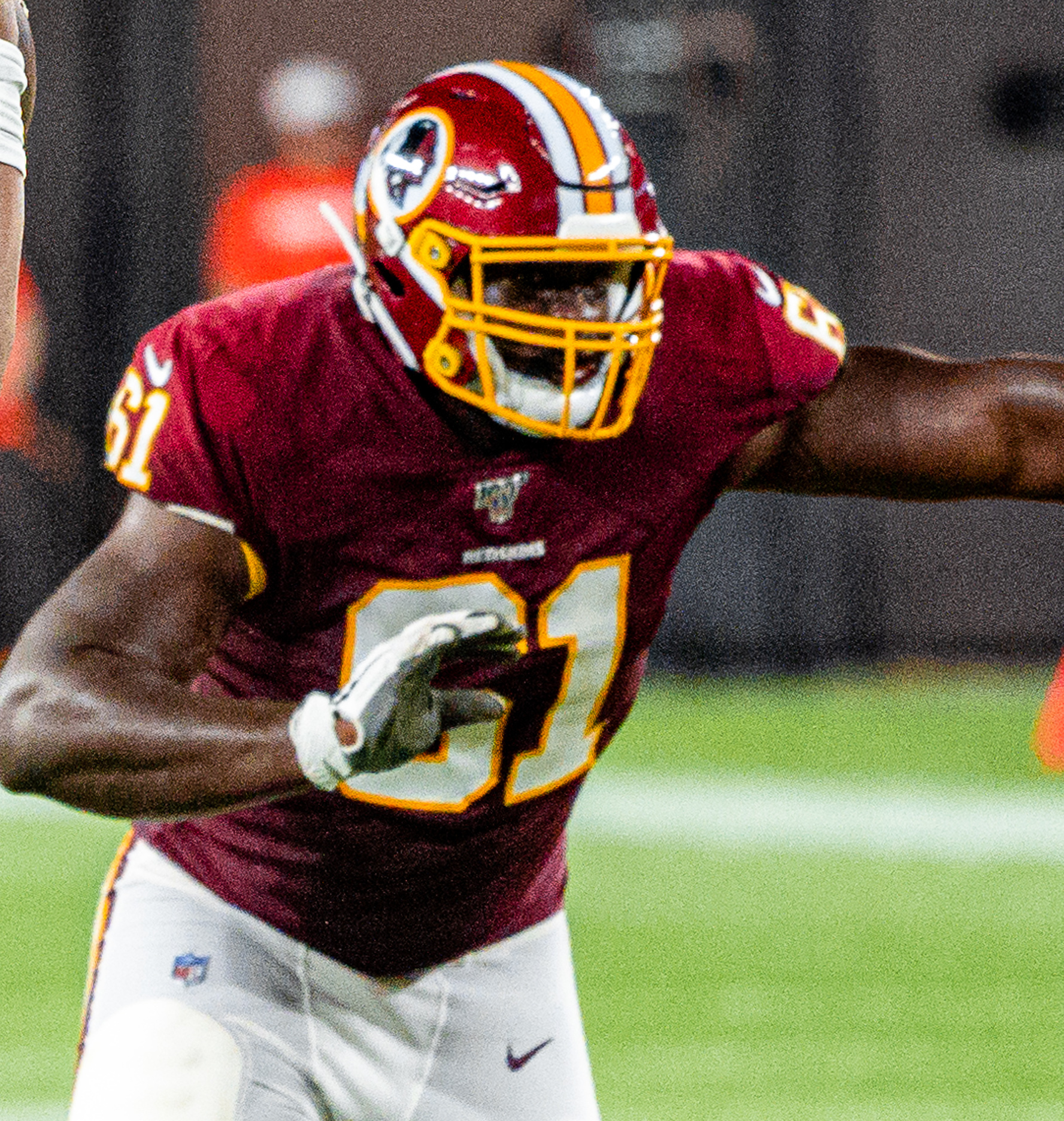 Washington Redskins offensive tackle, Timon Paris, during a preseason game against the Cleveland Browns on August 8, 2019.